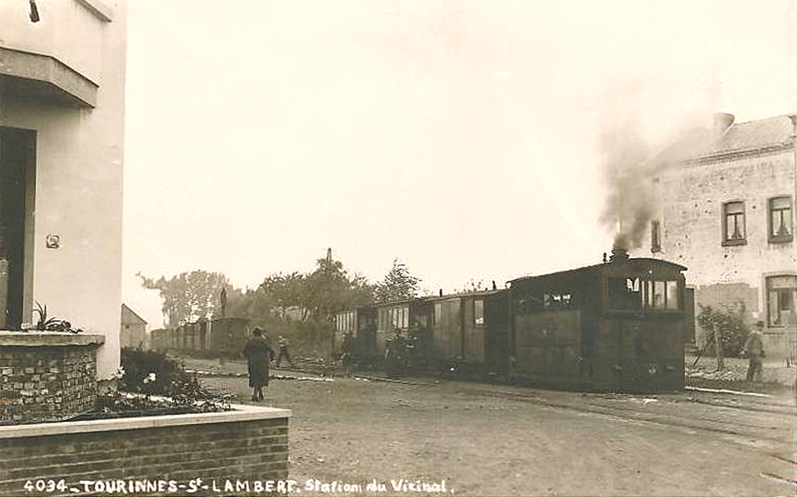 Metre gauge steamtram of the belgian NMVB/SNCV in Tourinnes